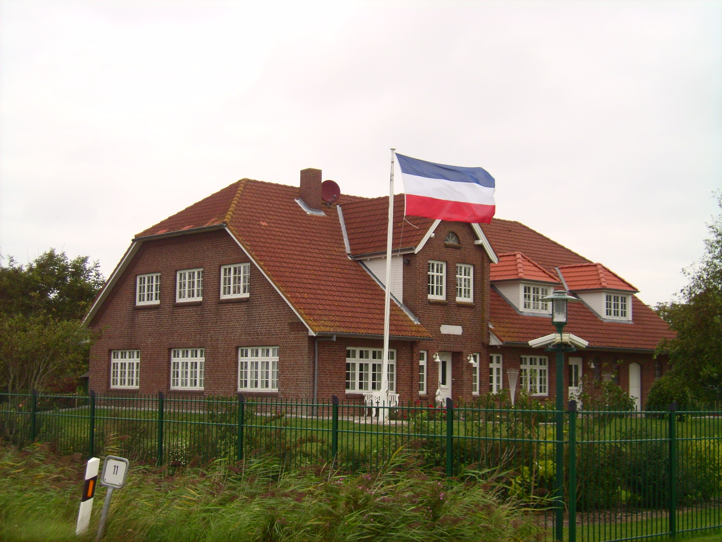 Former home of Peter Harry Carstensen (former premier of the state of Schleswig-Holstein (Germany)) in Elisabeth-Sophien-Koog on the peninsula Nordstrand